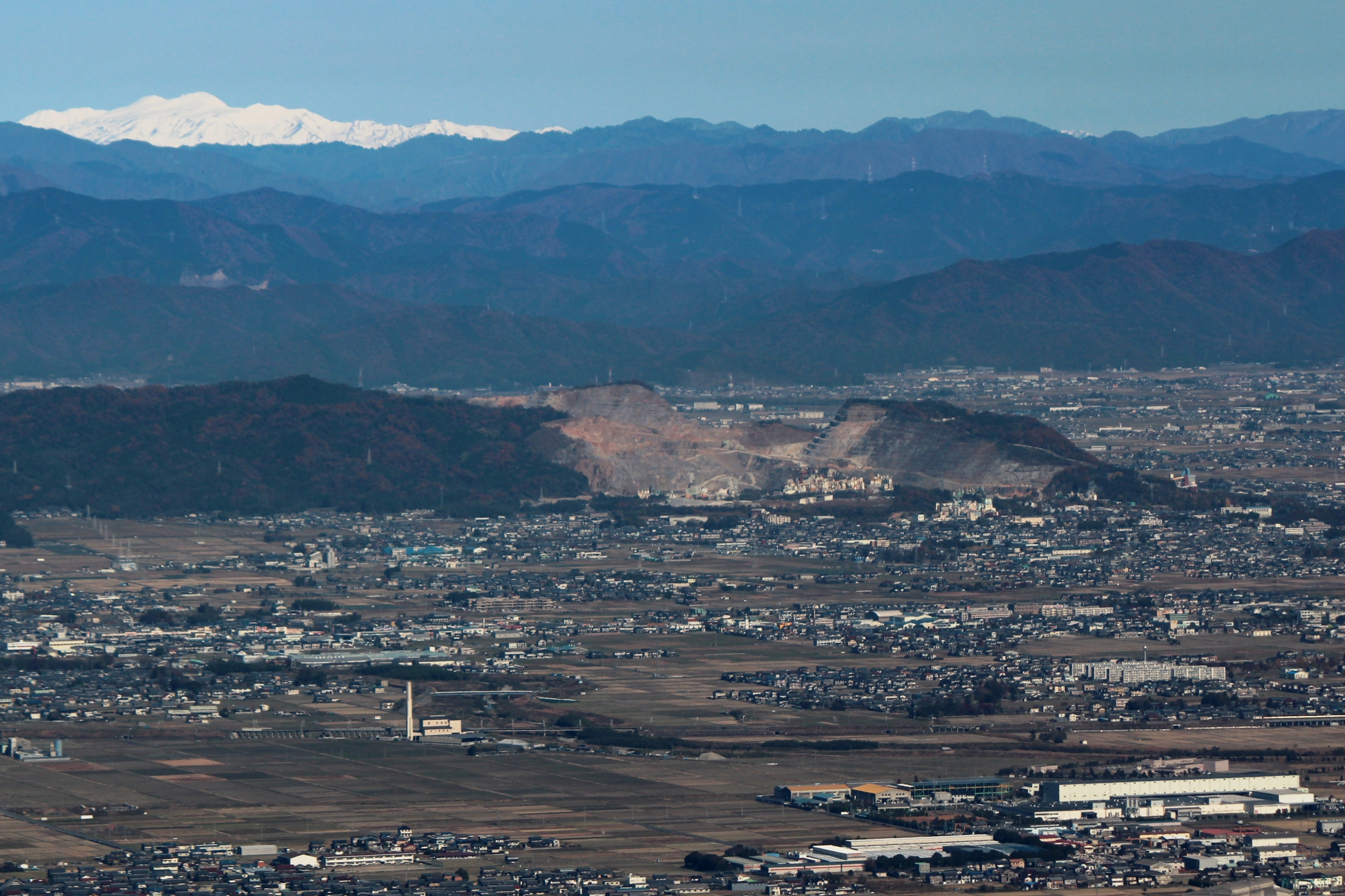 Mount Kinshō (center) and Mount Haku (left) from Yōrō Mountains (from south)